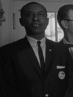 Leffler, Warren K.,, photographer. [Civil rights leaders meet with President John F. Kennedy in the oval office of the White House after the March on Washington, D.C.] [1963 Aug. 28] 1 negative : film ; 35mm. Notes: Title devised by Library staff. U.S. News & World Report Magazine Photograph Collection. Photograph shows (left to right): Willard Wirtz (Secretary of Labor); Floyd McKissick (CORE); Mathew Ahmann (National Catholic Conference for Interracial Justice); Whitney Young (National Urban Leage); Martin Luther King, Jr.(SCLC); John Lewis (SNCC); Rabbi Joachim Prinz (American Jewish Congress); A. Philip Randolph, with Reverend Eugene Carson Blake partially visible behind him; President John F. Kennedy; Walter Reuther (labor leader), with Vice President Llyndon Johnson partially visible behind him; and Roy Wilkins (NAACP). Subjects: Kennedy, John F.--(John Fitzgerald),--1917-1963. March on Washington for Jobs and Freedom--(1963 :--Washington, D.C.) African Americans--Civil rights--Washington (D.C.)--1960-1970. Civil rights demonstrations--Washington (D.C.)--1960-1970. Format: Portrait photographs--1960-1970. Group portraits--1960-1970. Film negatives--1960-1970. Repository: Library of Congress, Prints and Photographs Division, Washington, D.C. 20540 USA, Higher resolution image is available (Persistent URL): Call Number: LC-U9- 10379-6